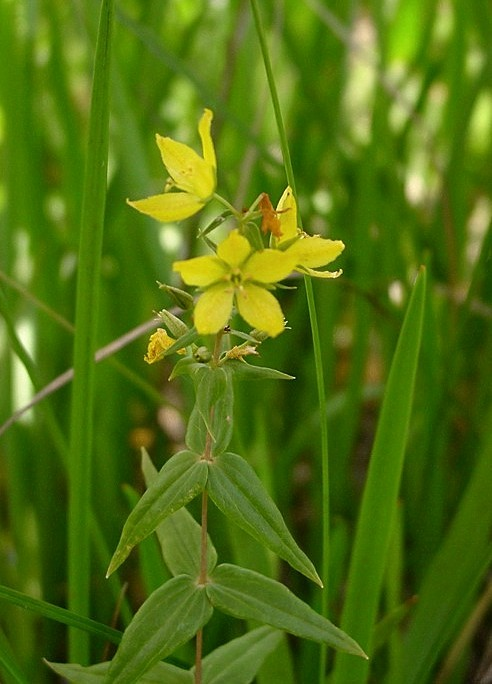 Lysimachia asperulifolia orth var Lysimachia asperulaefolia, Image location: Pender County, North Carolina, United States